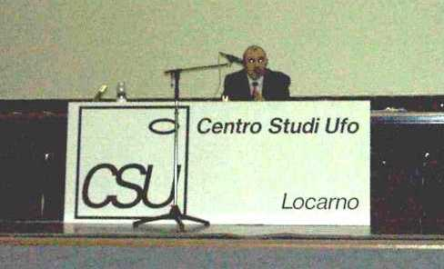 CSU Conference '99